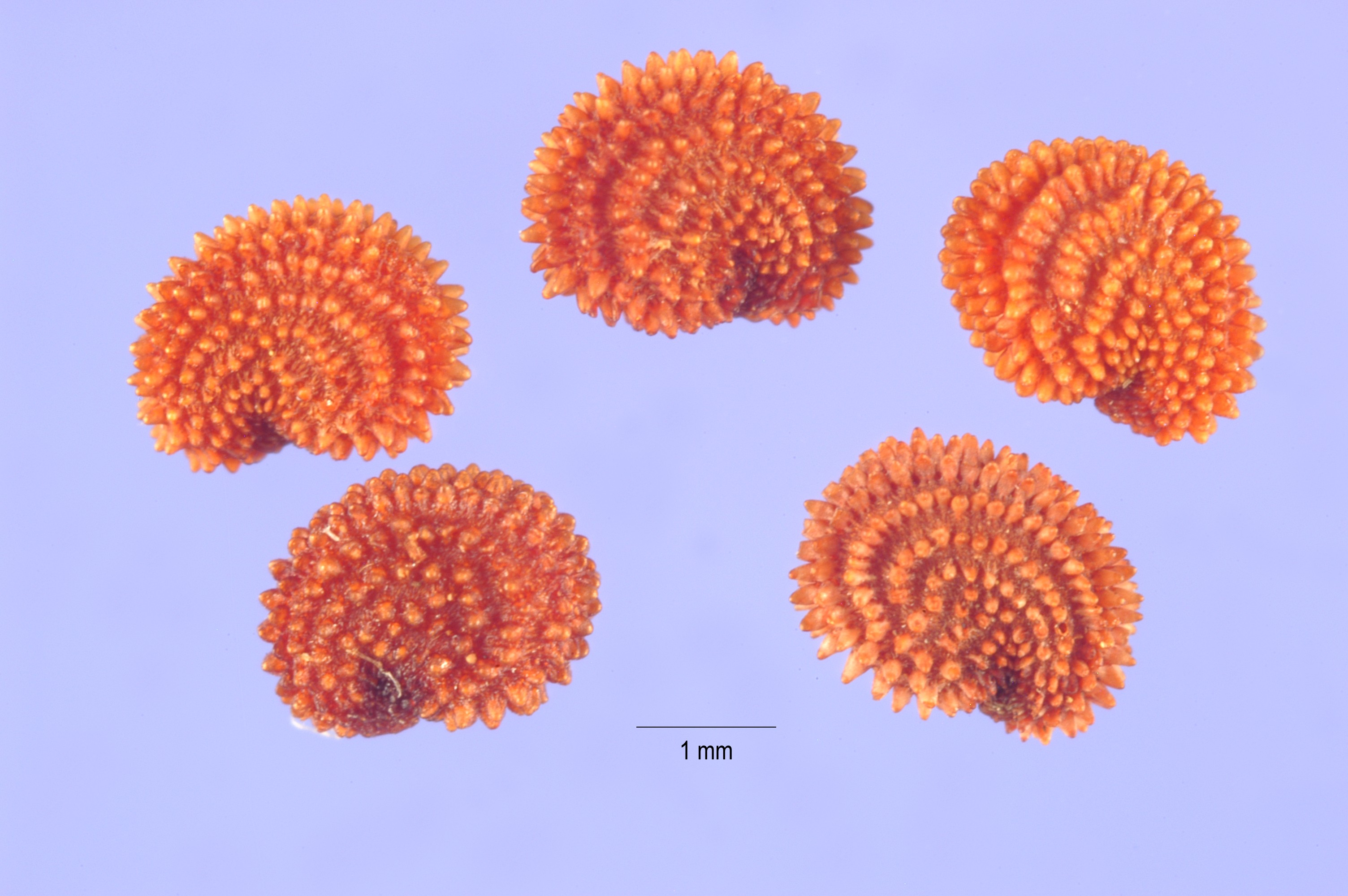 Seeds of Stellaria holostea